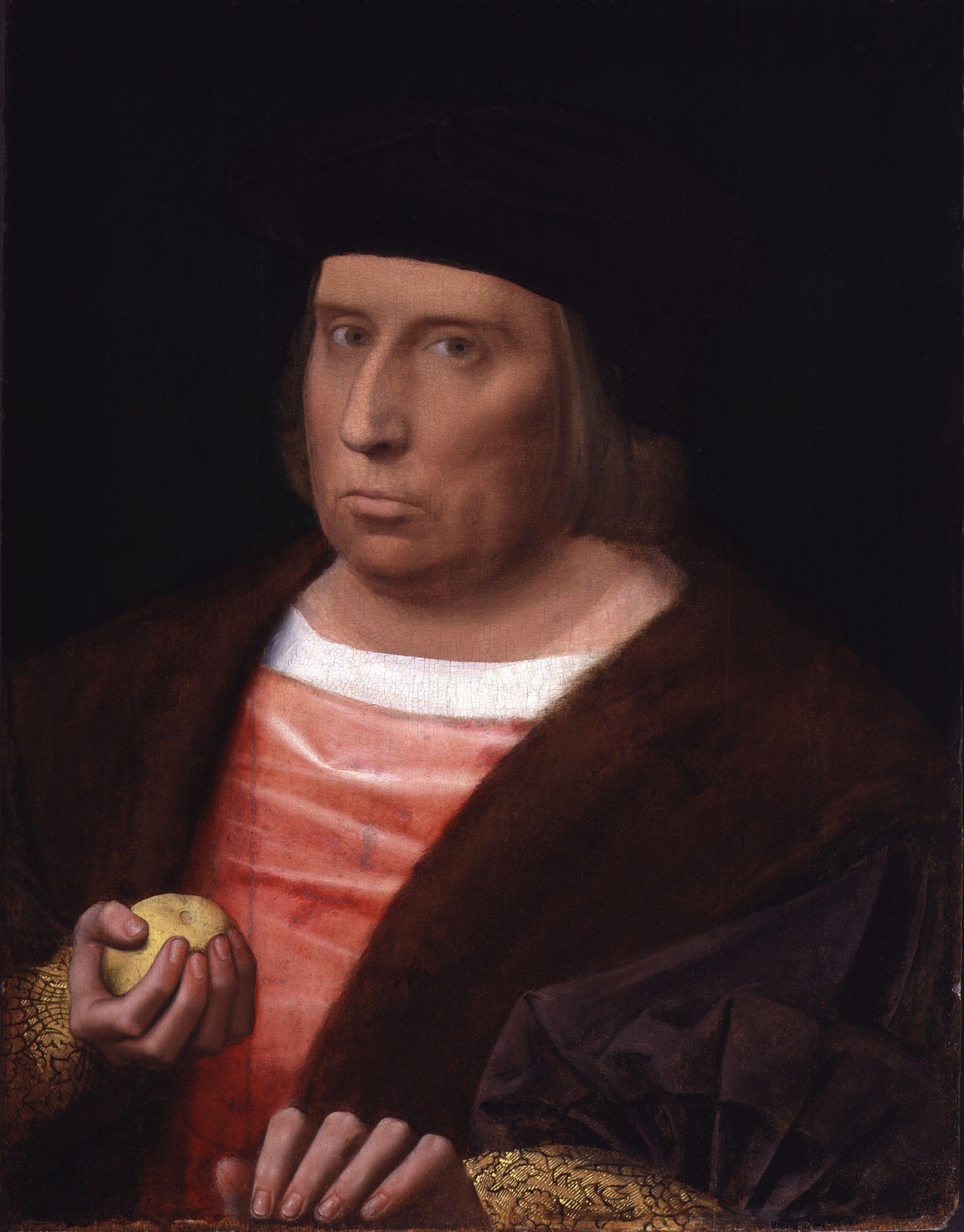 All images in this batch have been confirmed as author died before 1939 according to the official death date listed by the NPG.